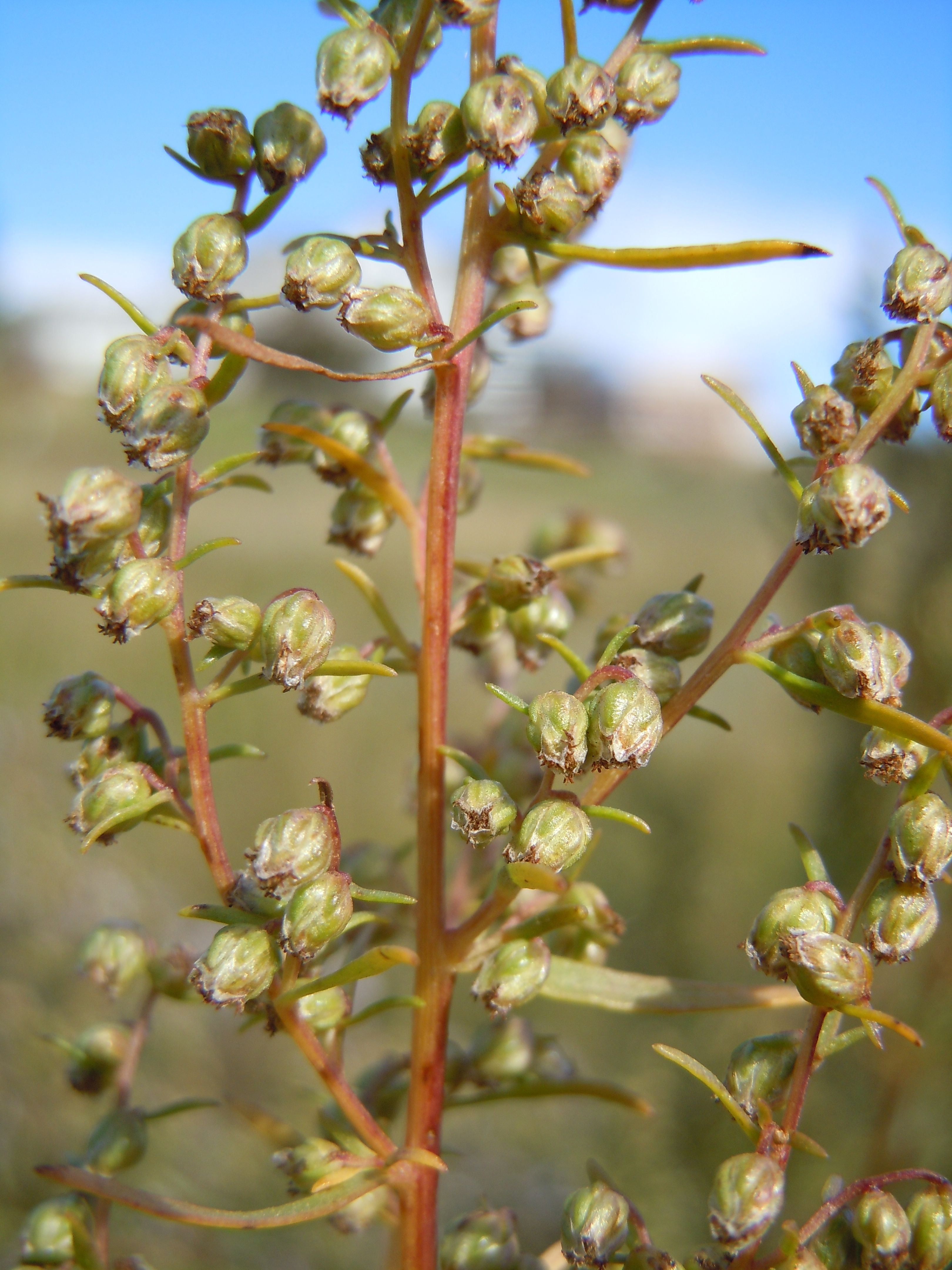 The inflorescences bear relatively few simple short bracteate leaves and the involucral bracts are glabrous.